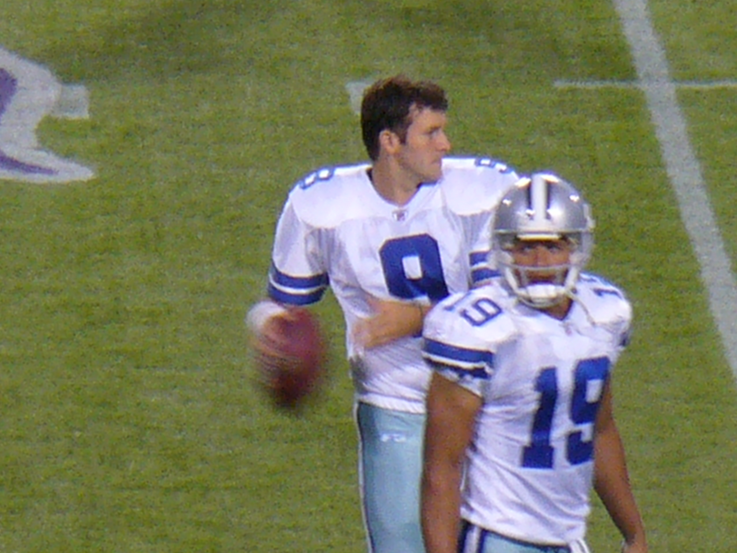 Tony Romo and Miles Austin